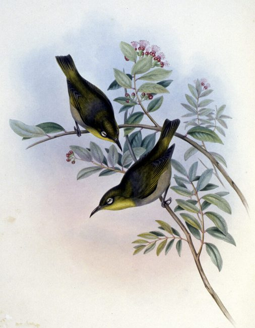 Illustration from The Birds of Australia showing Robust White-eye (Zosterops strenuus) By H.C. Richter for John Gould (1804-1881).